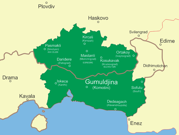 Map of the Provisional Government of Western Thrace (1913) Shown on the map are the capitals of the ten kazas (prefectures) that formed the state. The contemporary names are shown in parentheses. In three cases, Egri Dere, Ahi Celebi and Sultan Yeri, the names of the kazas were different from these of their capitals